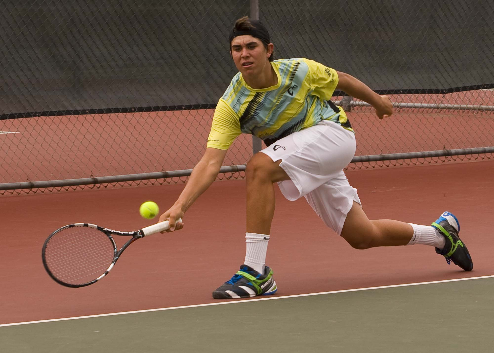 Collin Altamirano stretches for a forehand during the Men's Open Singles semifinals at the Mountain View Open.